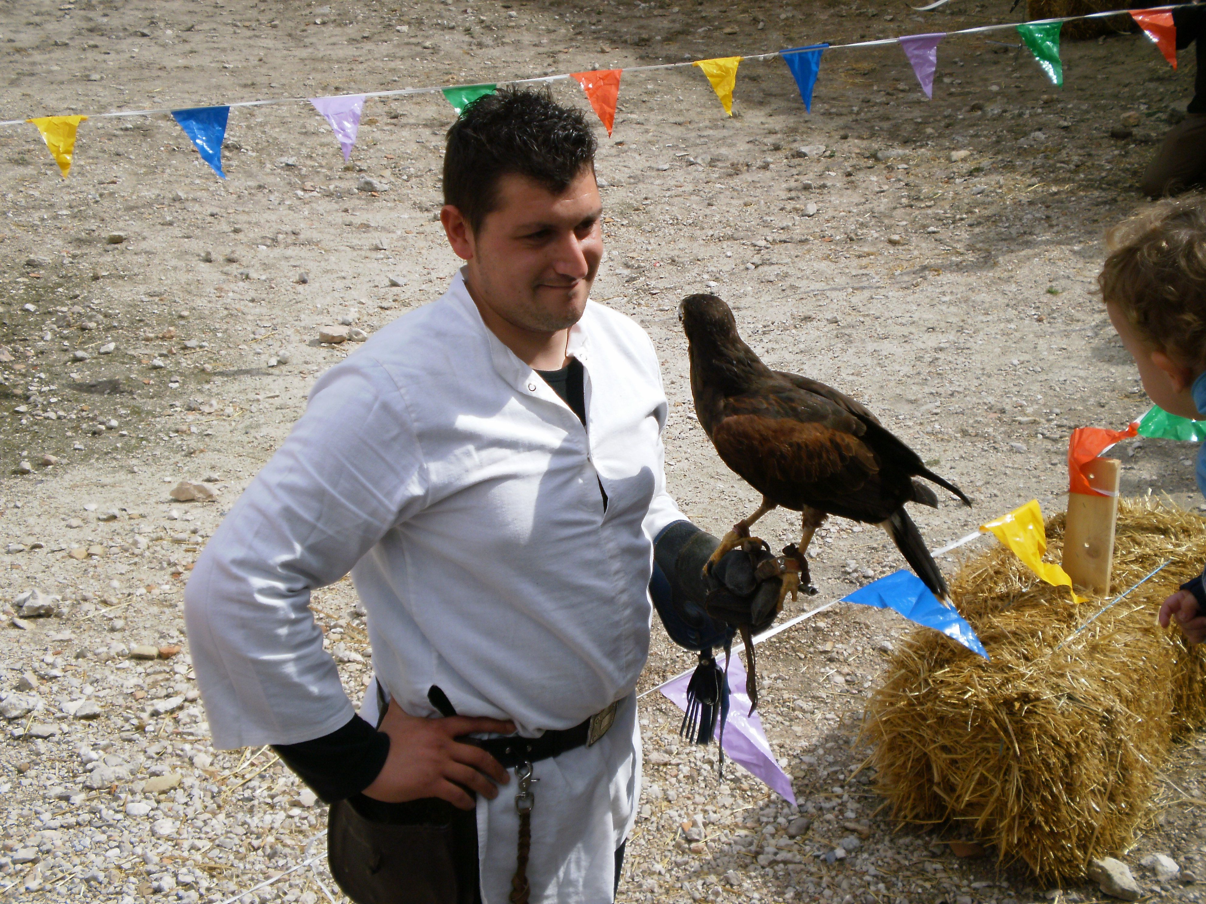 Falconry display in the Atalaya Castle, Villena